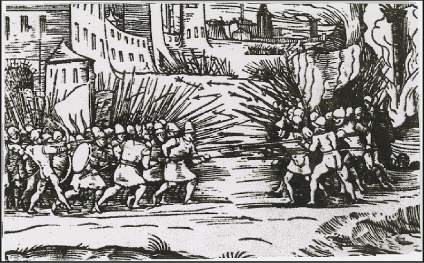 Woodcut depicting a battle between Skanderbeg and the Ottomans